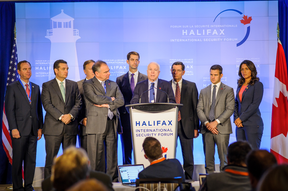 Senator John McCain (R-AZ) speaks during a press conference held by the US congressional delegation at the Halifax International Security Forum 2014. He is joined (left to right) by Representative Adam Schiff (D-CA), Senator Ted Cruz (R-TX), Representative Mike Pompeo (R-KS), Senator Tim Kaine (D-VA), Senator-elect Tom Cotton (R-AR), Senator John Barrasso (R-WY), Representative Adam Kinzinger (R-IL), and Representative Tulsi Gabbard (D-HI).